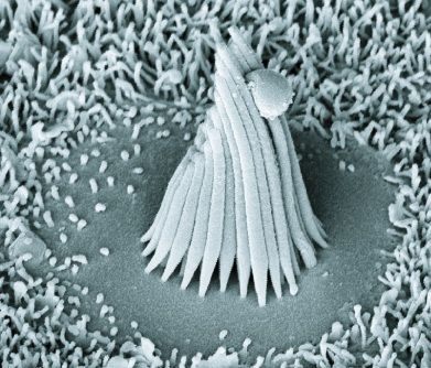 Electron microscopy image of a sacculus hair cell of a frog.